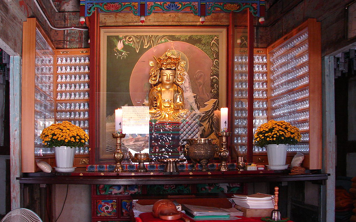 Seonamsa's Wontongjeon was built in 1660. This structure is quite different from the Wontongjeon found at other Korean Buddhist temples because it has three sections. The one section in the center, and the two sections on the sides, form the shape of a "T". Wontongjeon (Wontong Hall) is where the Buddhist Goddess of Mercy is enshrined.